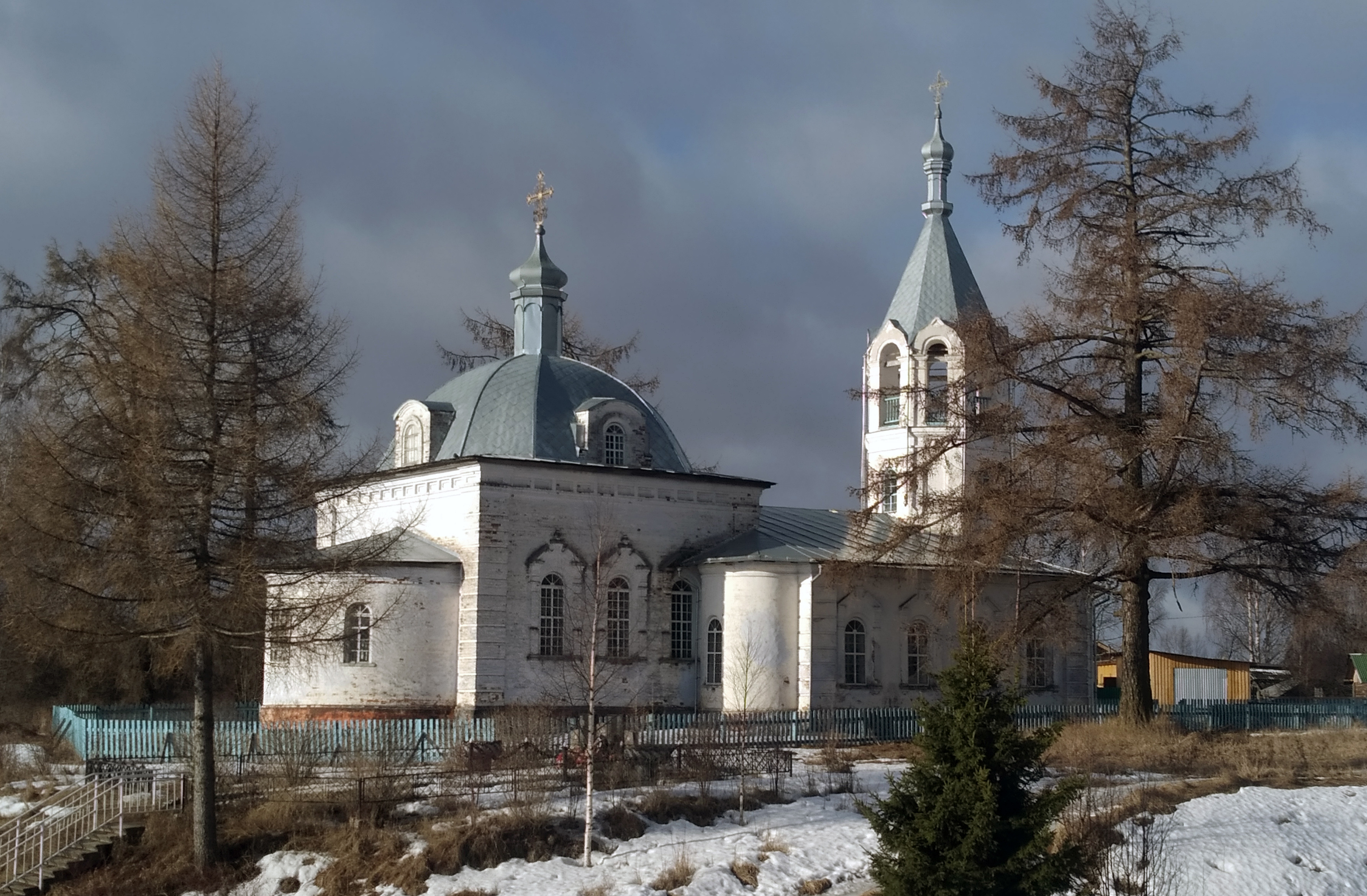 храм в деревне Петровская